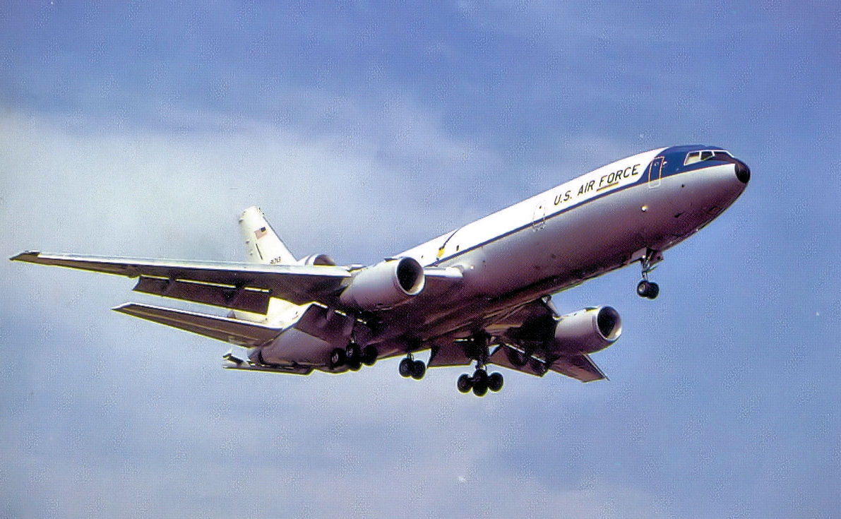 306th Air Refueling Squadron KC-10 Arriving at RAF Mildenhall 1986